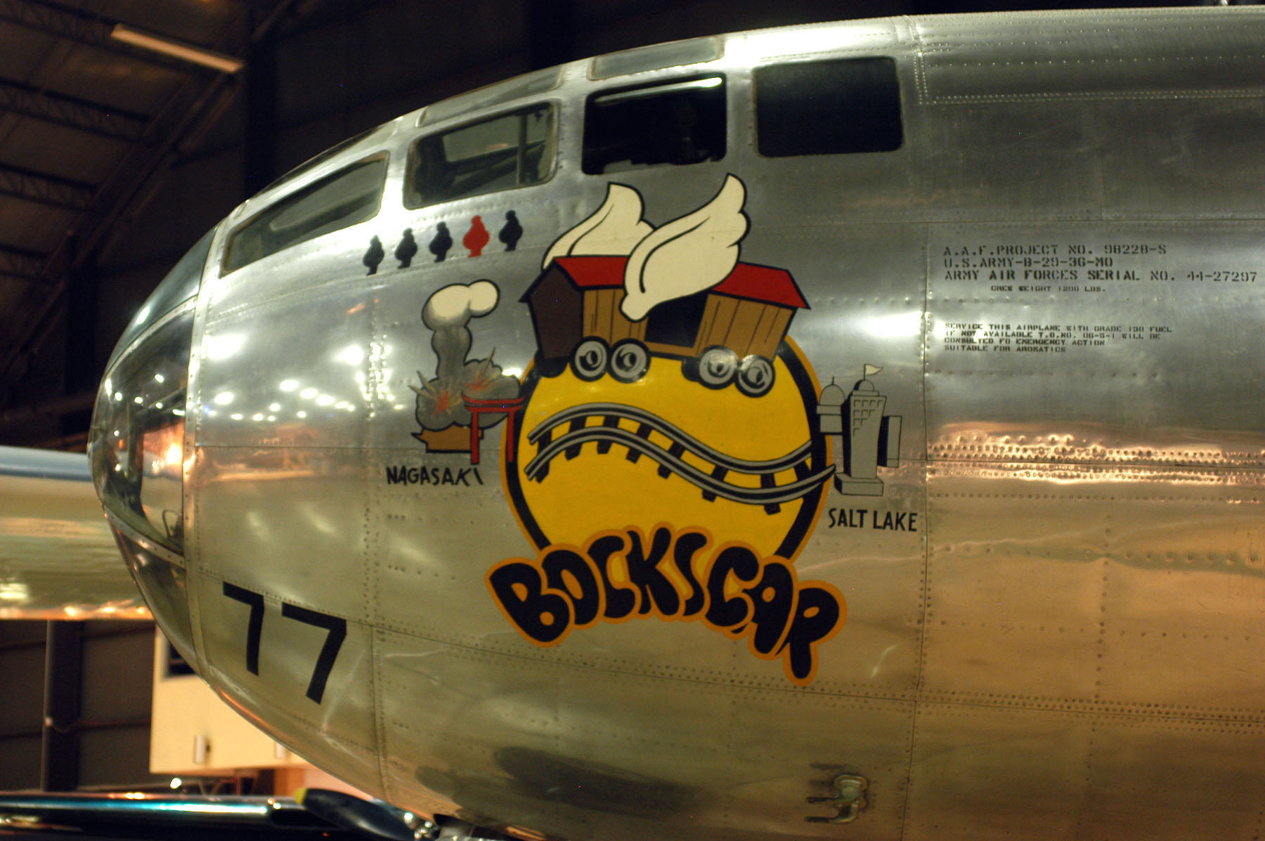 B-29 Bockscar at the National Museum USAF